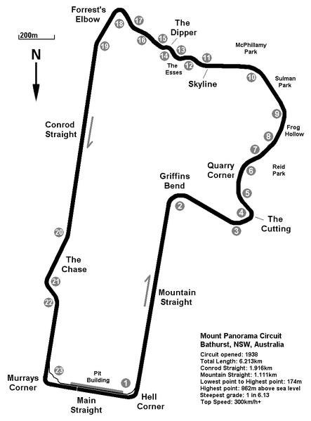 A basic overview map of the Mount Panorama Circuit in Bathurst, NSW, Australia. Map made by myself October 2008 - October 2009.